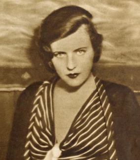 American actress, Ruth Chatterton, (1892-1961), from Modern Screen, February 1931